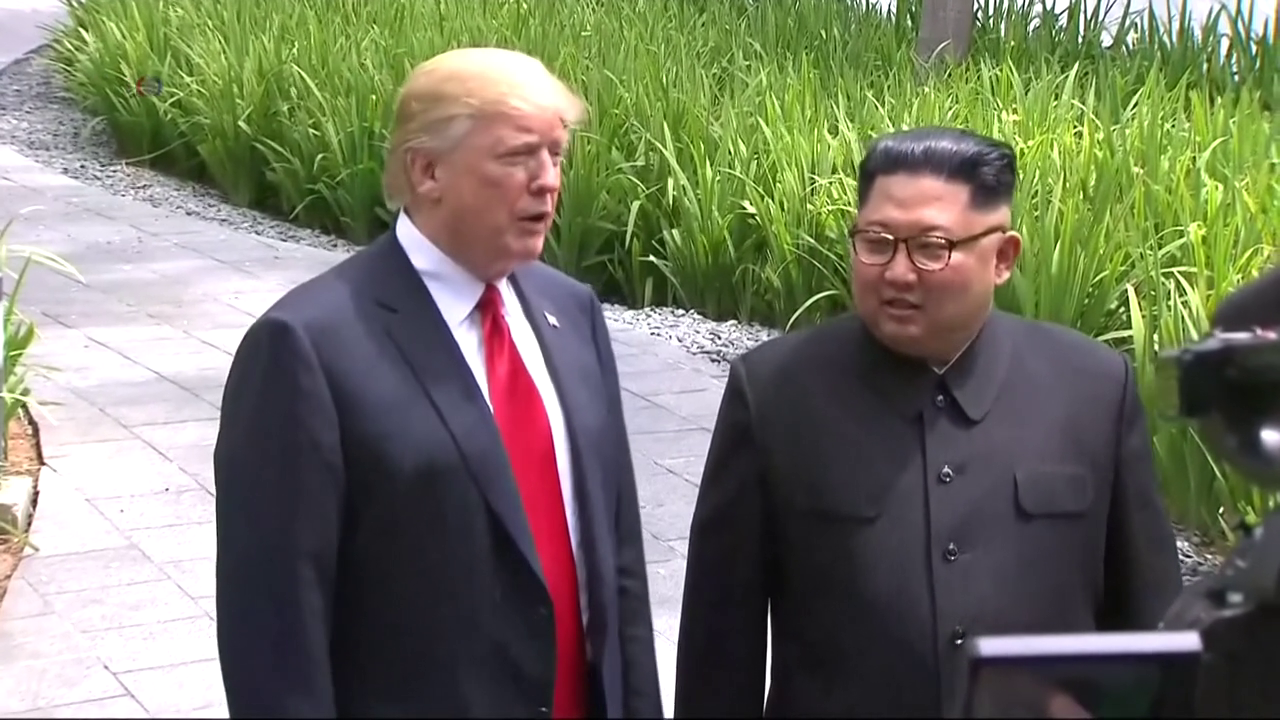 Trump and Kim meet the press